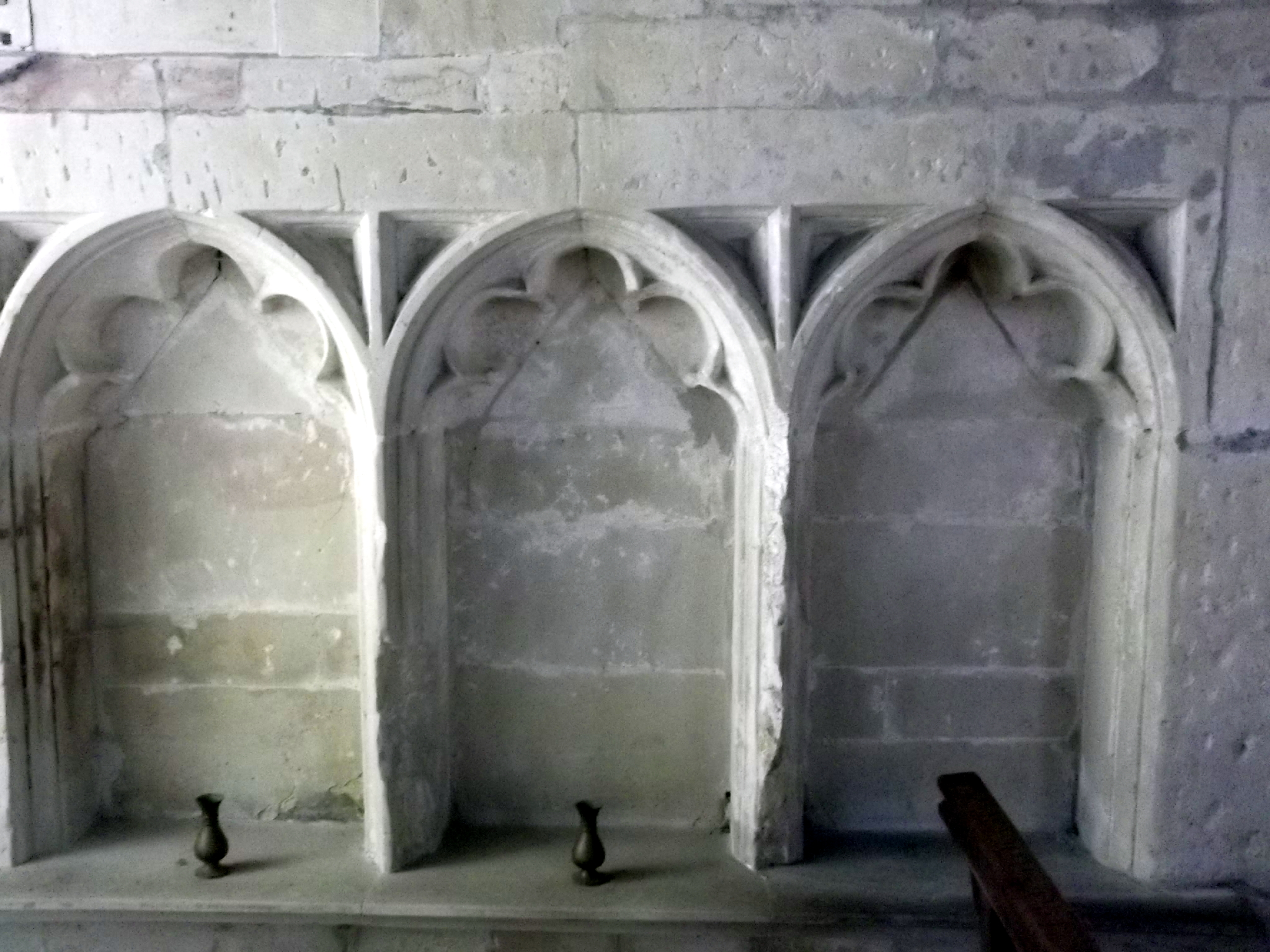 Sedilia, south side of chancel, St Mary Magdalene's Church, Battlefield, Shropshire.